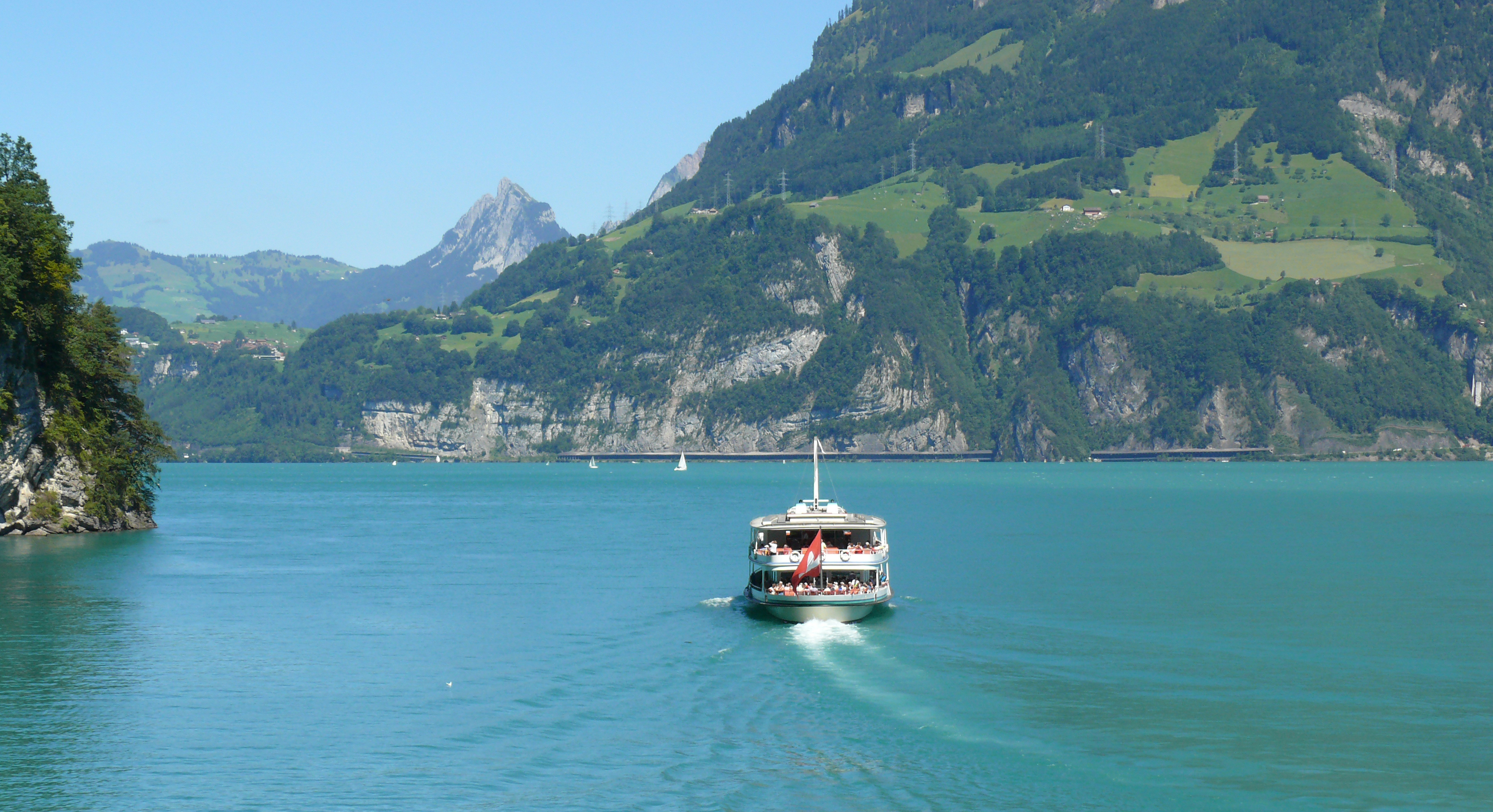 Passenger ship MS "Europa" on Lake Lucerne. Lake Lucerne (German: Vierwaldstättersee, lit. "Lake of the Four Forest Cantons") is a lake in central Switzerland, the fourth largest in the country. The lake has a complicated shape, with bends and arms reaching from the city of Lucerne into the mountains. Much of the shoreline rises steeply into mountains up to 1,500 m above the lake, resulting in many picturesque views including those of Mount Rigi and Mount Pilatus. Dozens of steamers ply between the different towns on the lake.